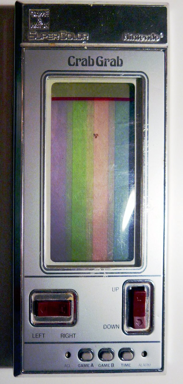 Crag Grab - Game&Watch - Nintendo